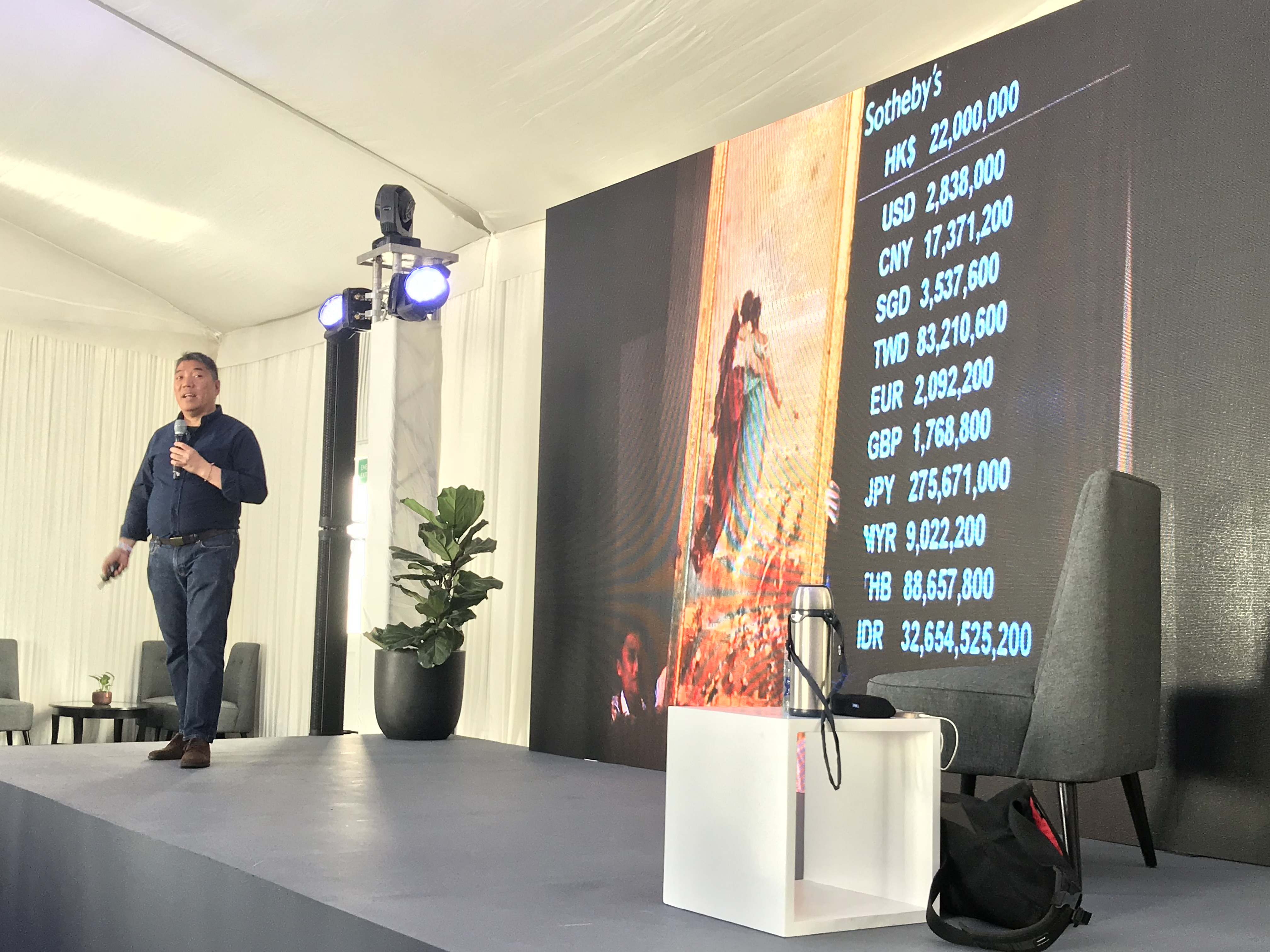 Taken during a lecture on "Collectors and Stewardship" by Prof. Ambeth R. Ocampo at the Art Fair Philippines 2018 in the Link, Makati City, Philippines.